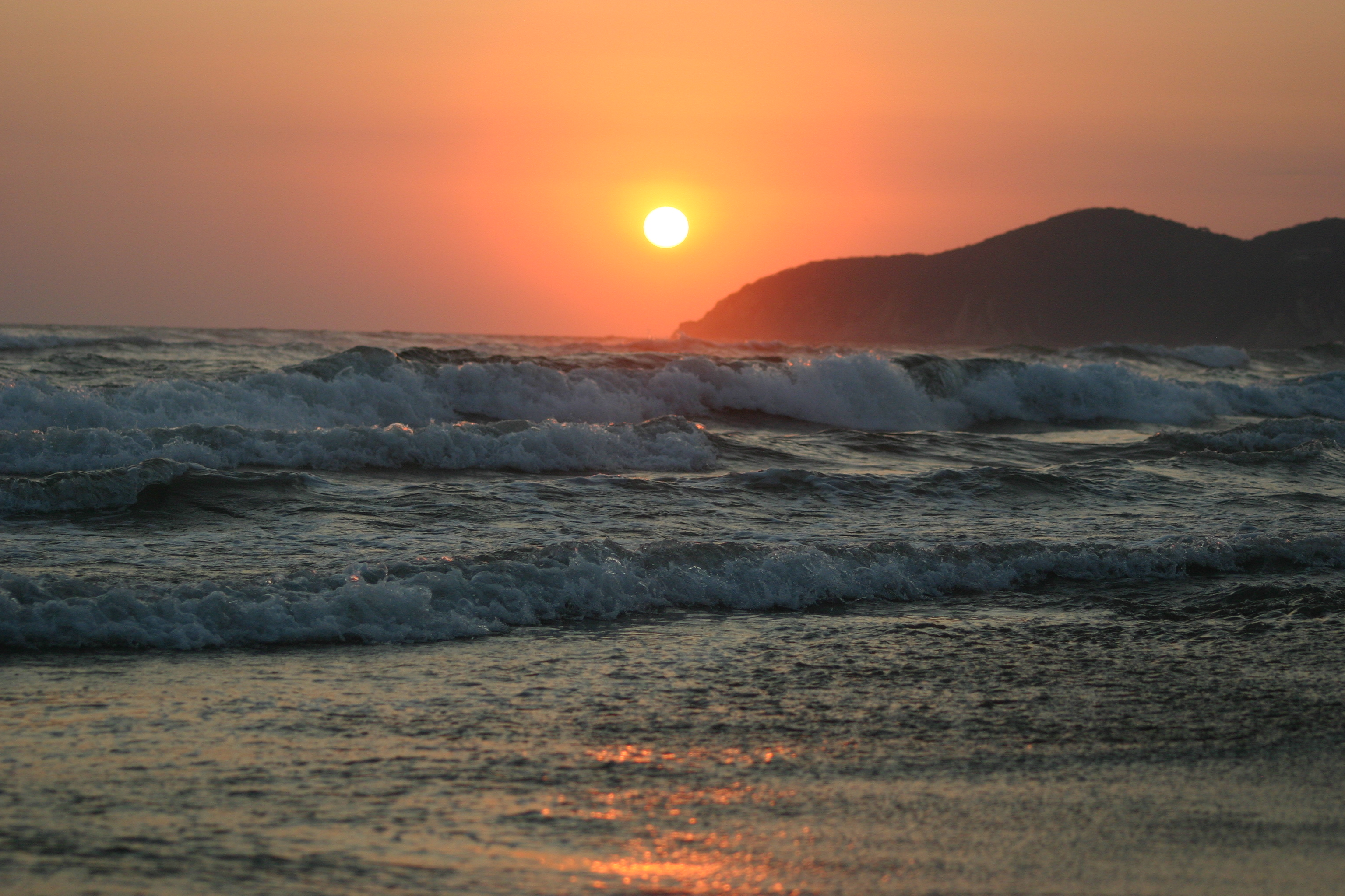 A sunset over the Pacific Ocean in Acapulco, Mexico